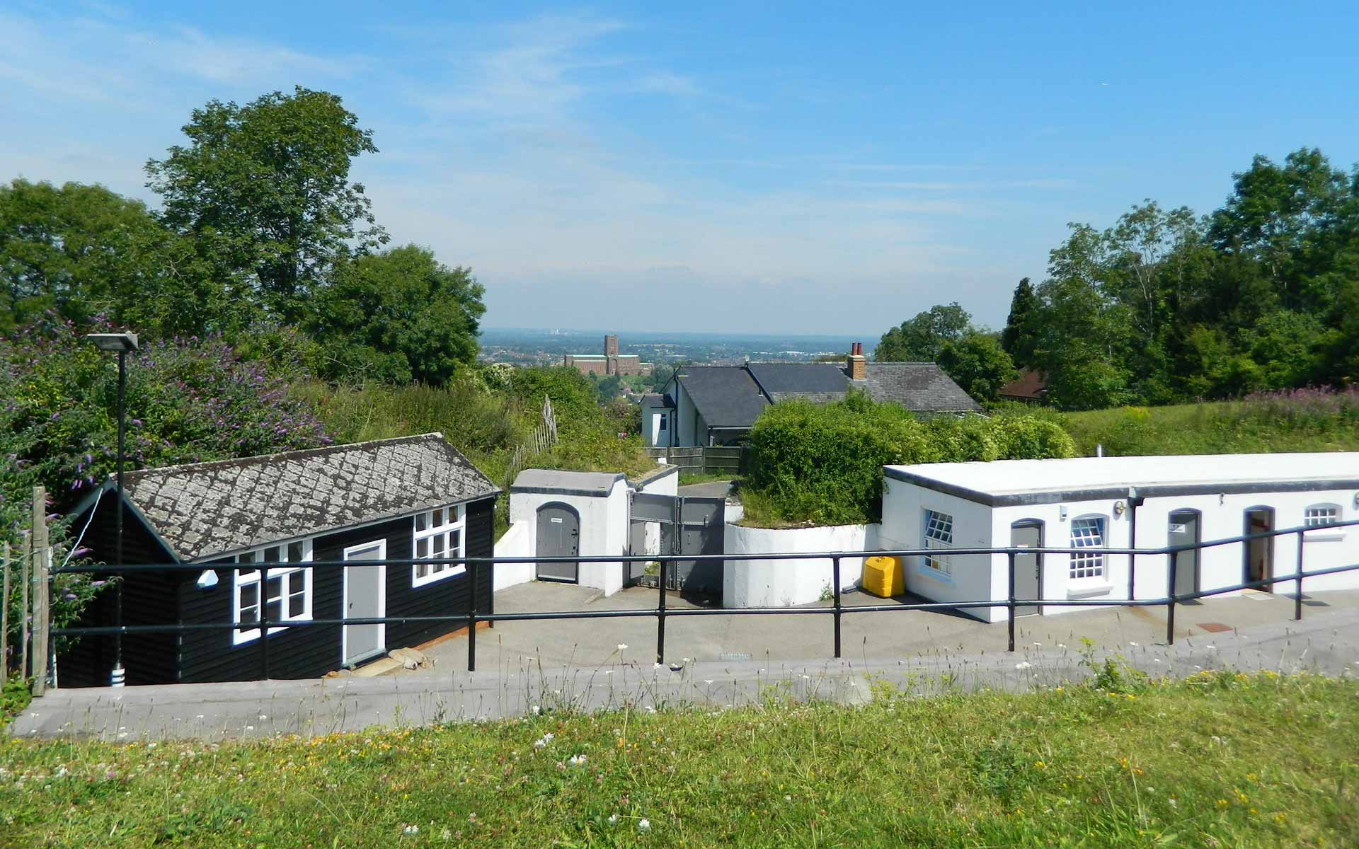 The view across Guildford from Henley Fort Outdoor Education Centre on a sunny day.